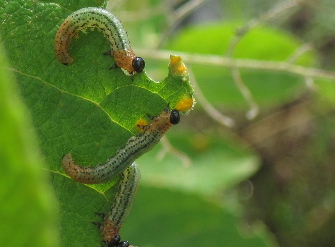 Nematus salicis (Willow sawfly) larvae on willow, Arnhem, the Netherlands Also known as: Pteronus salicis, Pteronidea salicis, Hypolaepus salicis